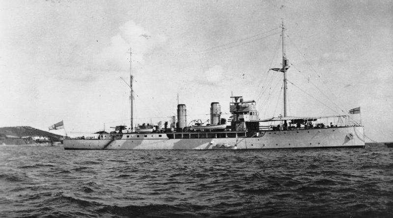 Photograph of British Acacia class sloop HMS Foxglove.